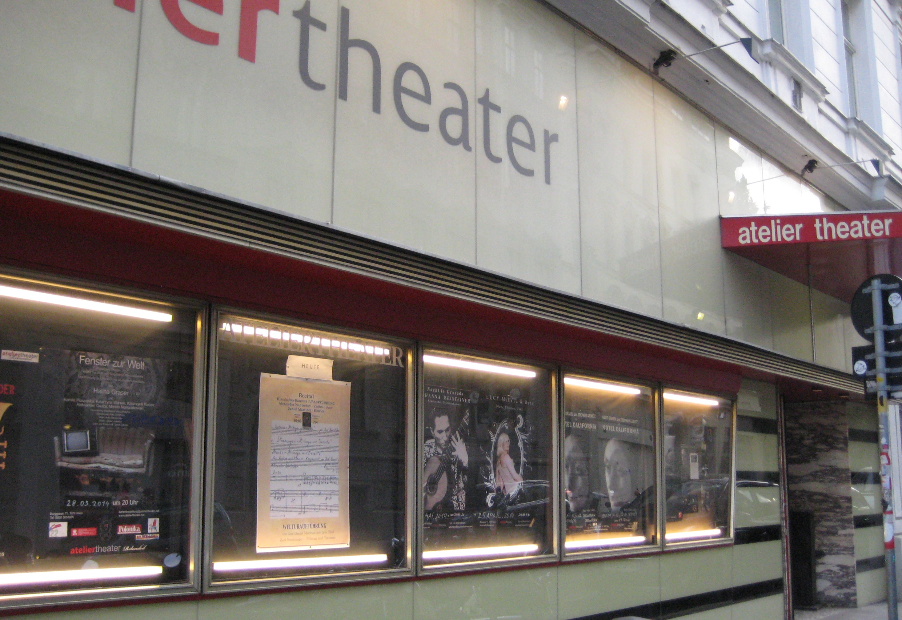 Ateliertheater (Vienna) outside, entry